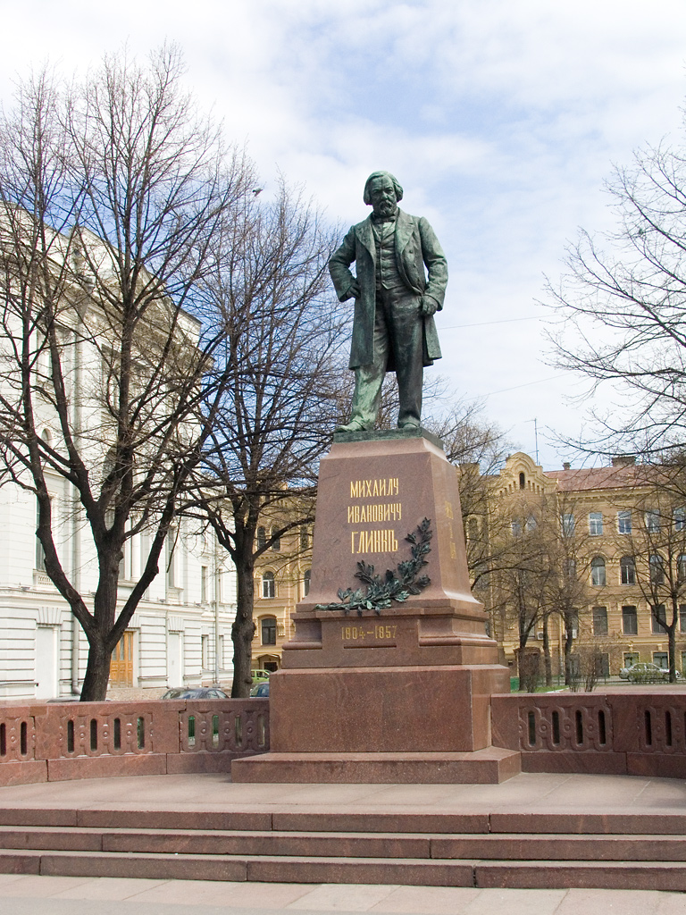 The monument to Mikhail Glinka at the Theater Square in Saint Petersburg.